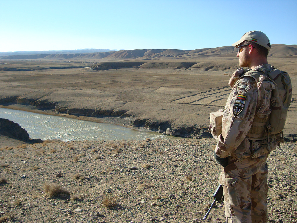 Hari Rode (Hari River) and Chaghcharan nature, in Ghor Province, Afghanistan. Photo by Tomas Balkus of Lithuania.